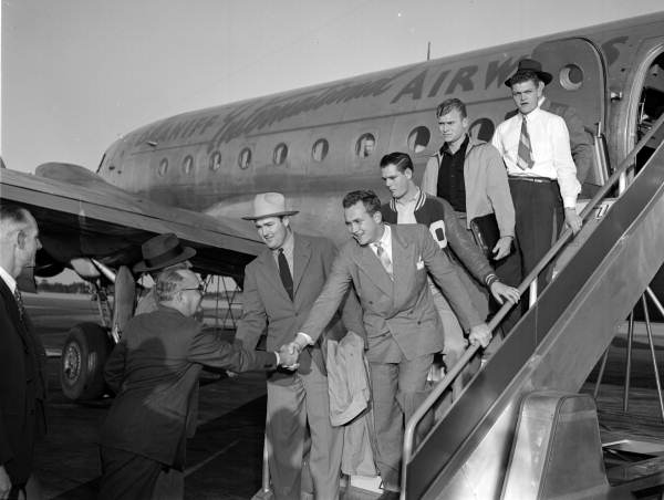 Local call number: RF00286 Title University of Oklahoma Football Team Arriving for the Gator Bowl Game: Jacksonville, Florida. General Note Oklahoma played North Carolina State in the Gator Bowl in Jacksonville, Florida — on New Year's Day 1947 and won 34-13. Note at the bottom of the stairs on the left is Coach Jim Tatum (wearing hat). Date: December 26, 1946 Publication info: Fisher, Robert E. Physical descrip: 1 photonegative: b&w; 4 x 5 in. Series Title: Print Collections Repository: State Library and Archives of Florida, 500 S. Bronough St., Tallahassee, FL 32399-0250 USA. Contact: 850.245.6700. Persistent URL